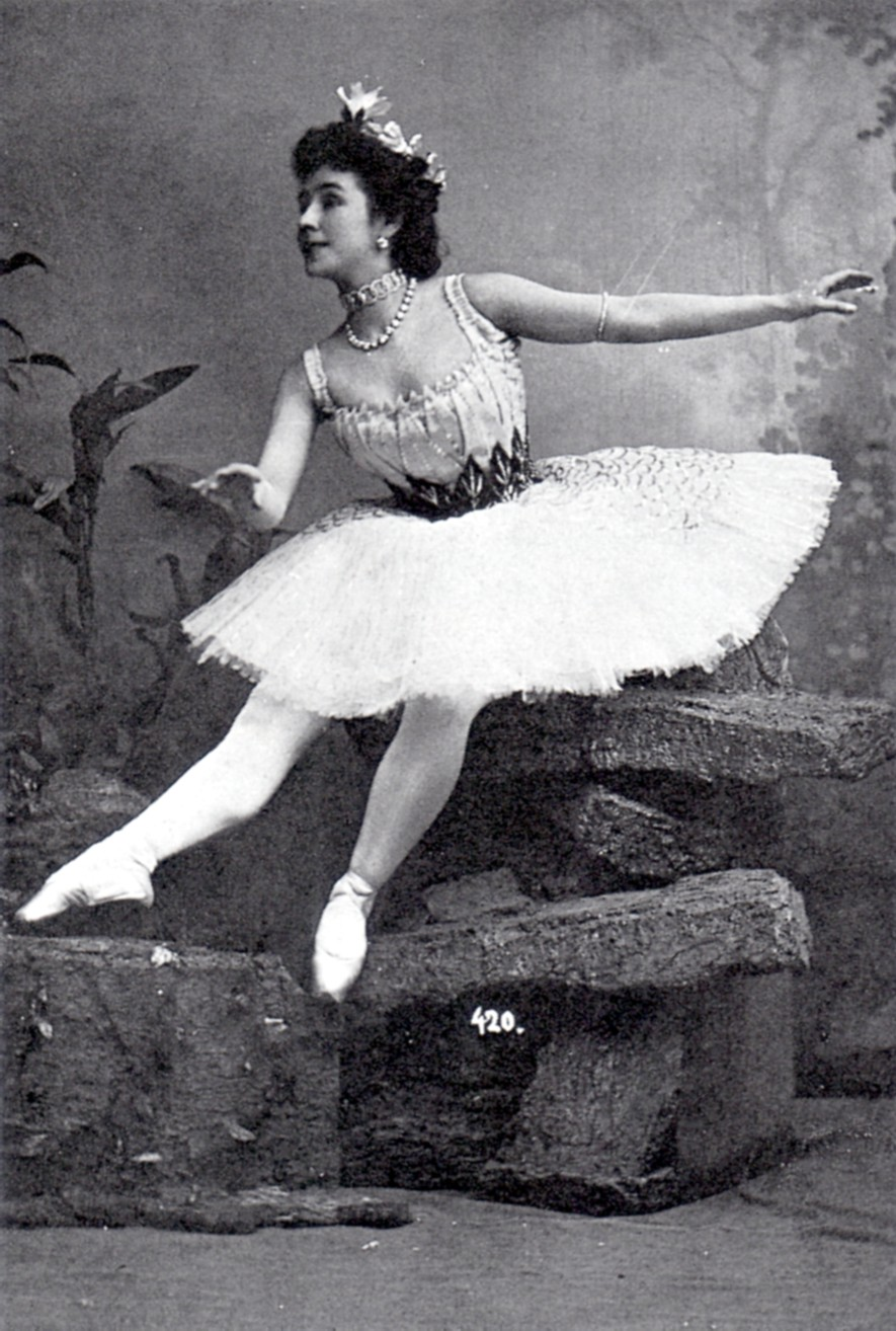 Photographic postcard of Mathilde Felixovna Kschessinskaya (1872-1971), Soloist to His Imperial Majesty and Prima ballerina of the St. Petersburg Imperial Theatres. She is costumed as Princess Aspicia in the under-water scene from the 1862 ballet The Pharaoh's Daughter, created by the choreographer Marius Petipa (1811-1910) and the composer Cesare Pugni (1803-1870).